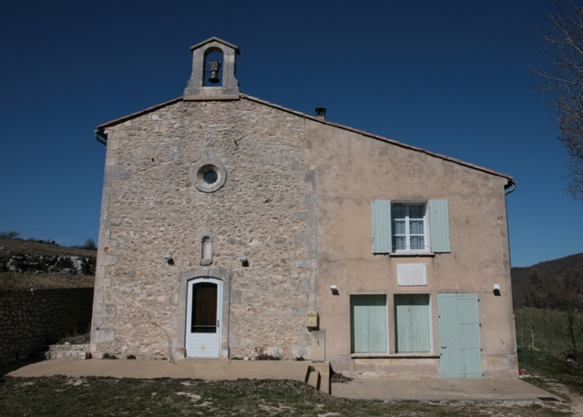 The village of Largarde d'Apt, Vaucluse, France